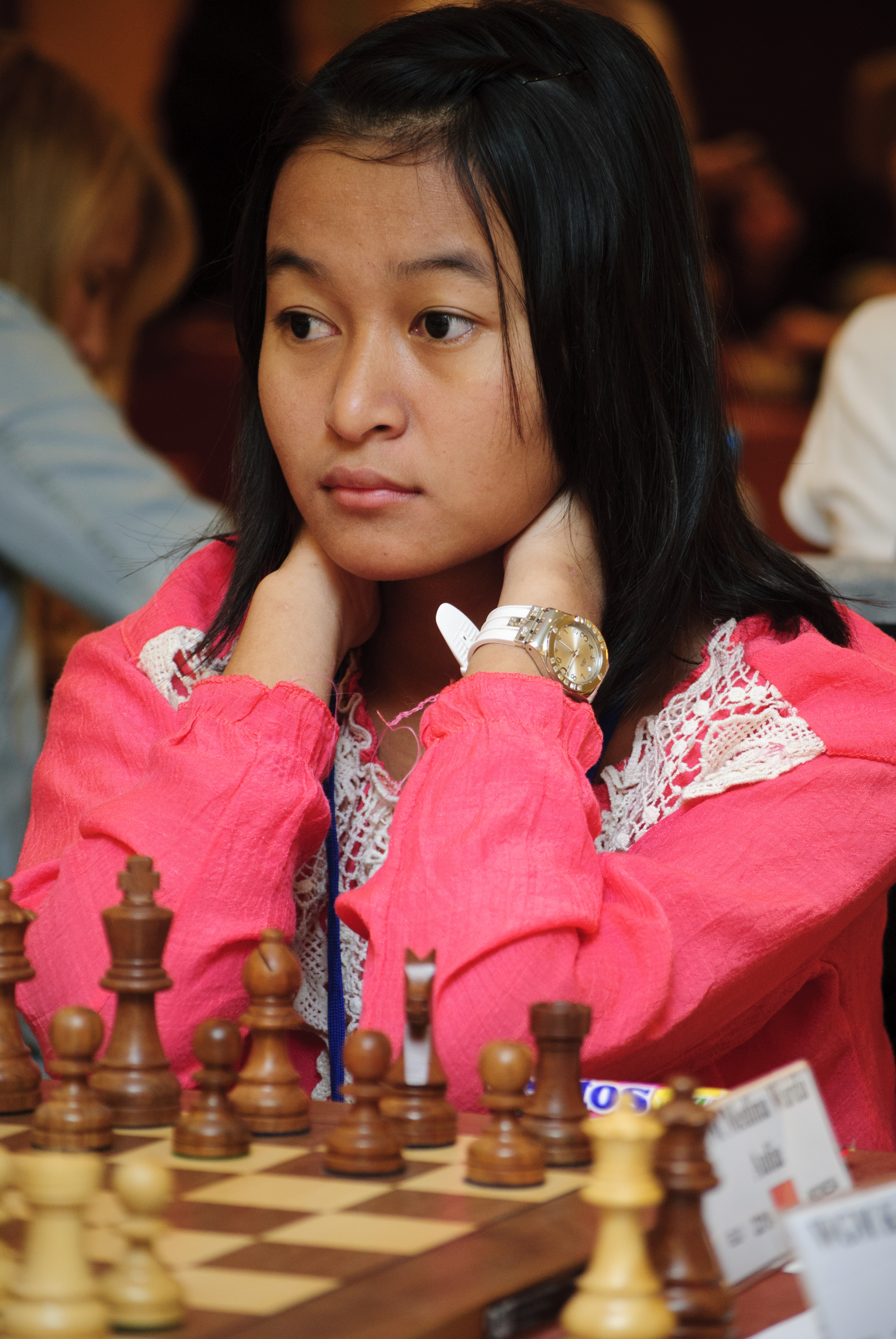 WFM Medina Warda Aulia, WChJ Athens 2012